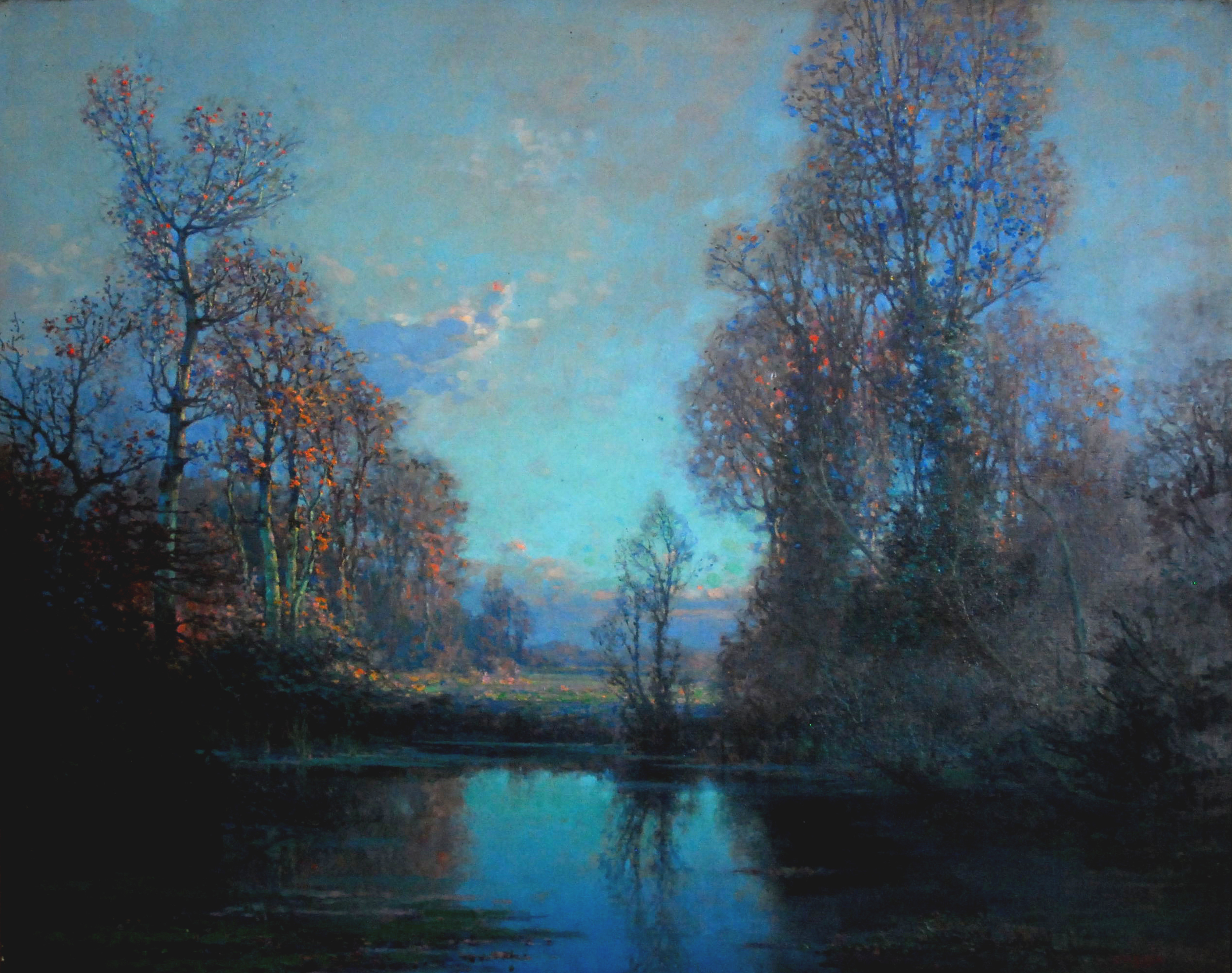 Bords de saone - painting by Louis Carbonnel, my great-grandfather.